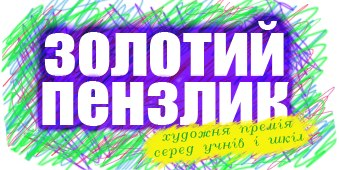 logo by paint's contest